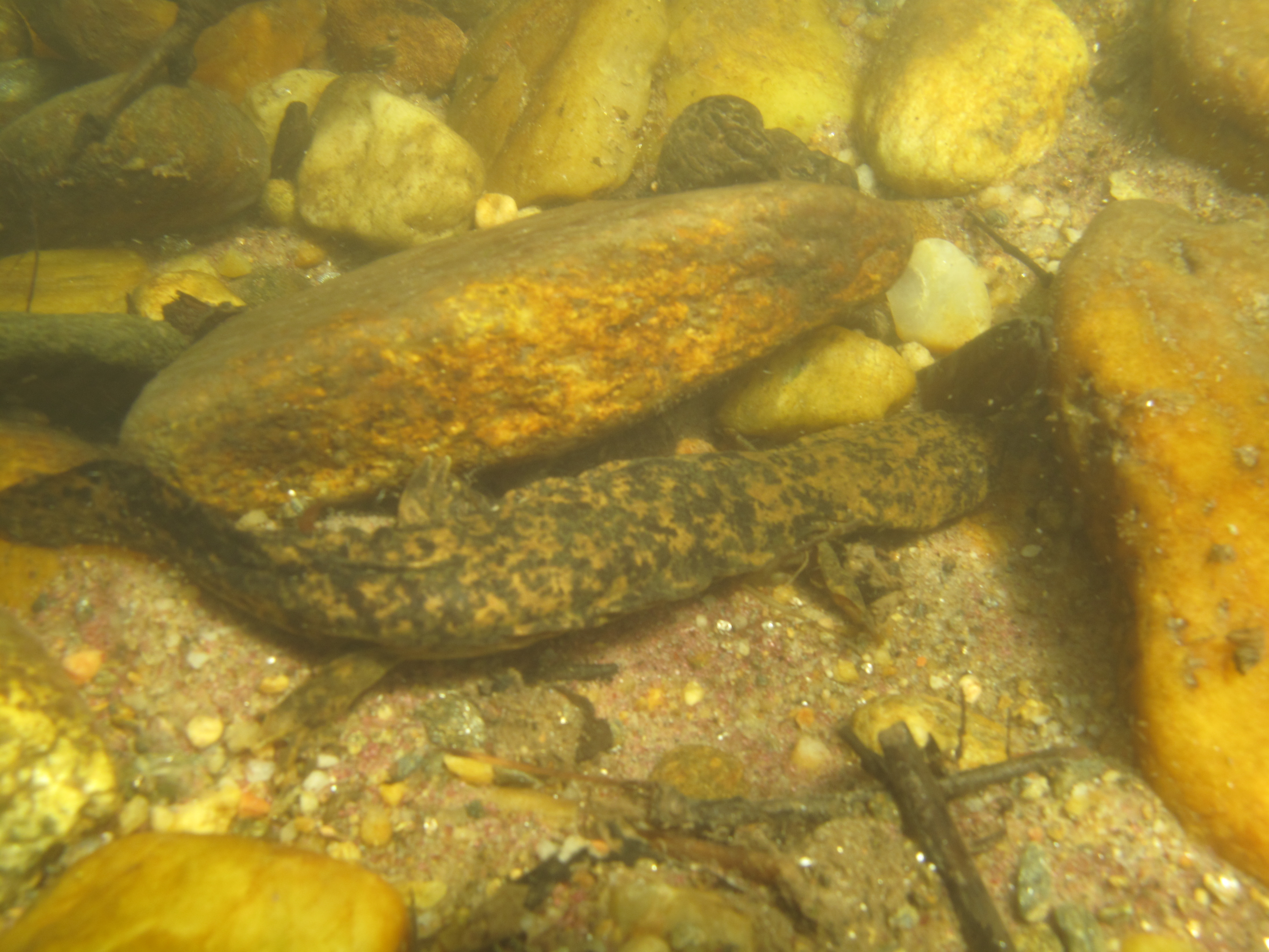 Eastern hellbender salamander, Cryptobranchus alleganiensis